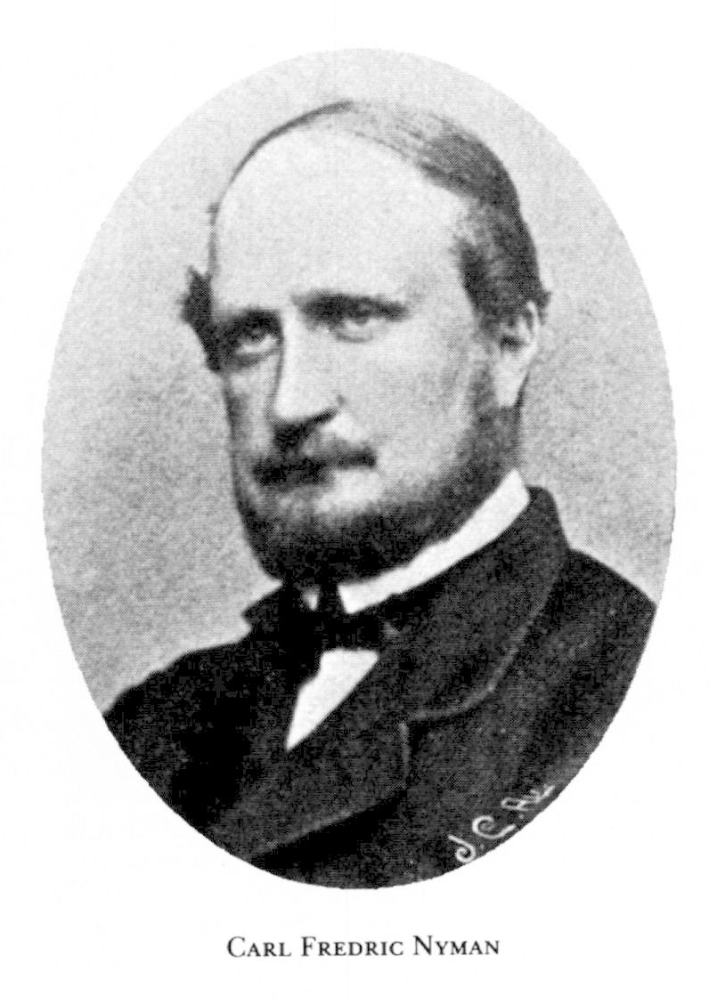 Carl Fredrik Nyman